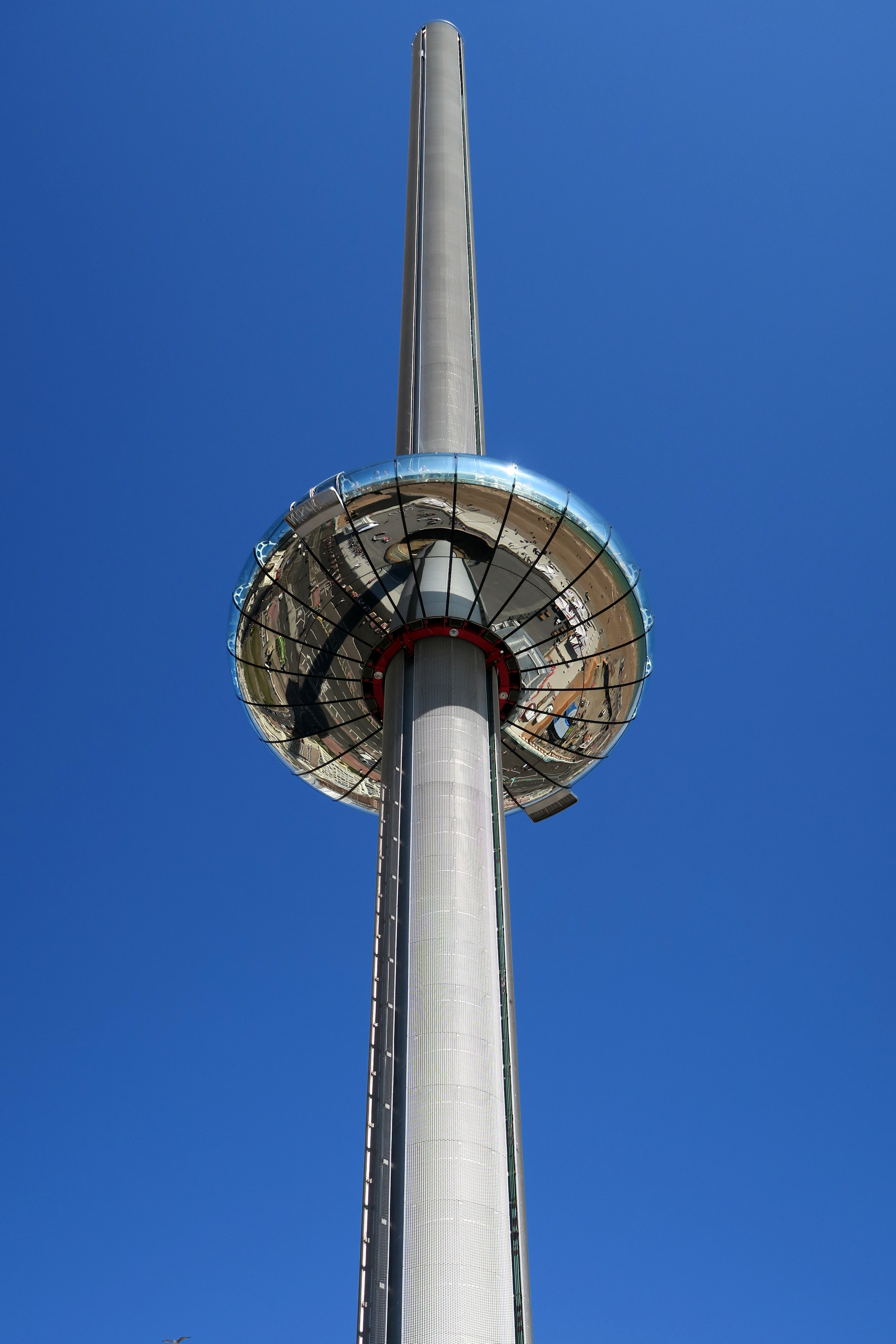 View of i360 in August 2016